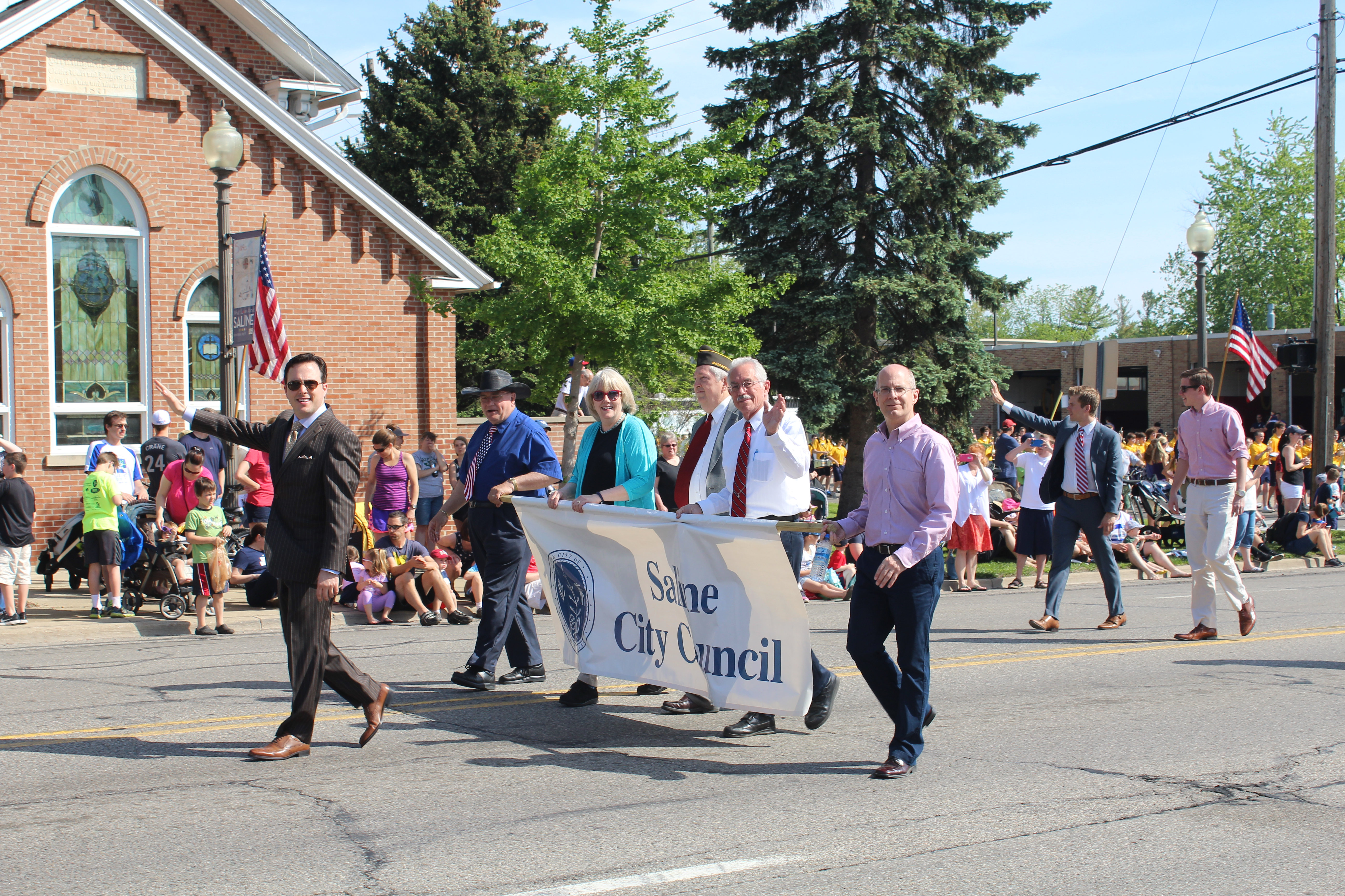 Members of the Saline, Michigan, City Council march in the 2014 Memorial Day Parade. Mayor Brian Marl in front followed by, left to right, Jim Roth, Linda TerHarr, Mayor Pro Tem, Lee Bourgoin, David Rhoads and Dean Girbach.